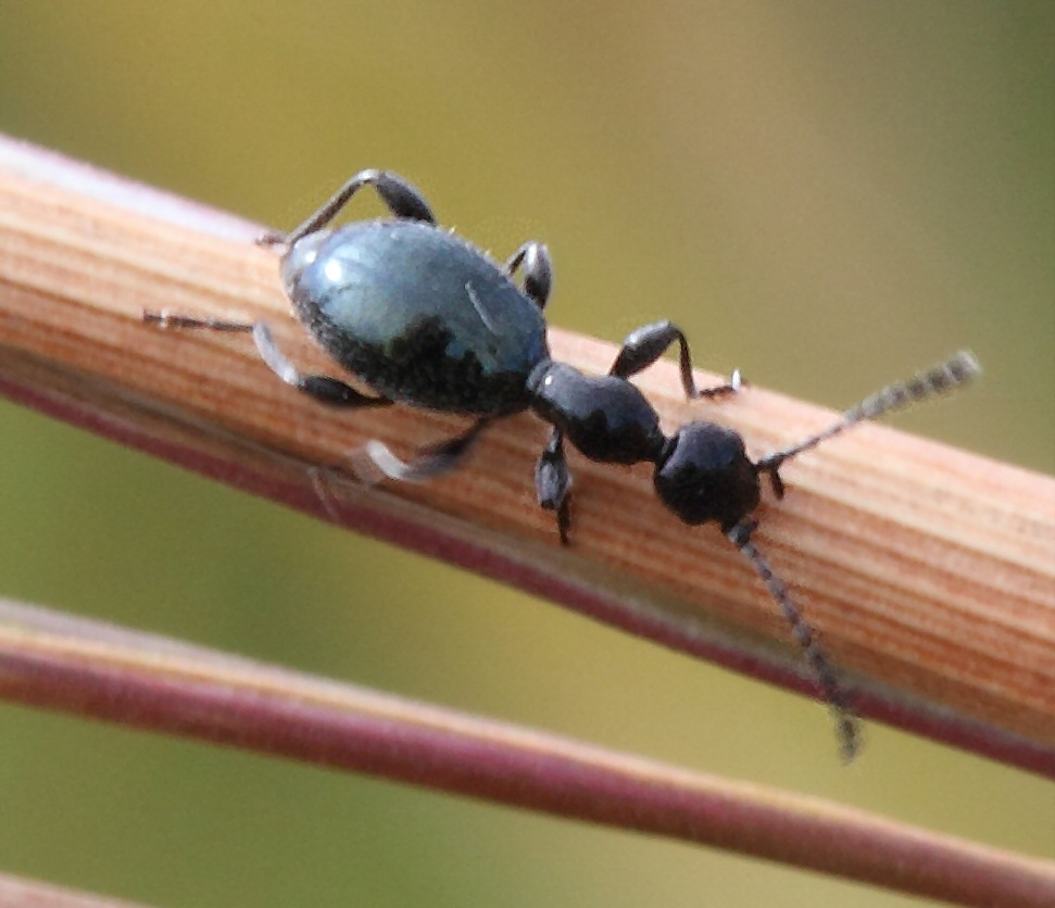 Small ant-mimicking beetle Anthicidae Anthelephila cyanea Hope, 1833: 63 About 4 mm long